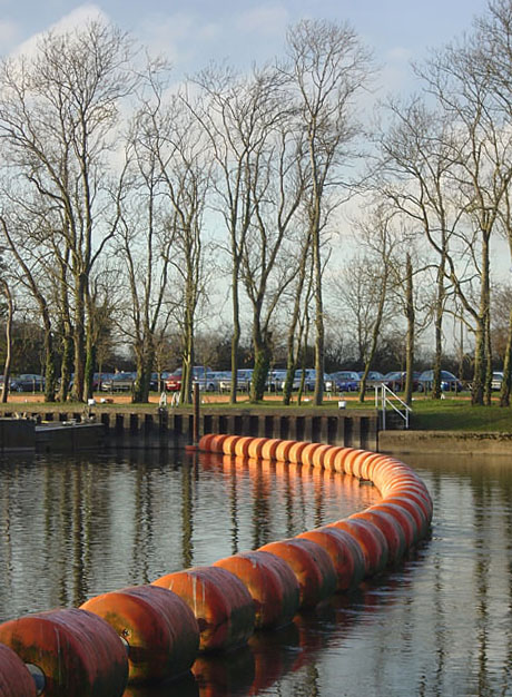 The boom at Gunthorpe weir This is designed to prevent craft being swept over the weir. It will also collect a certain amount of floating timber.